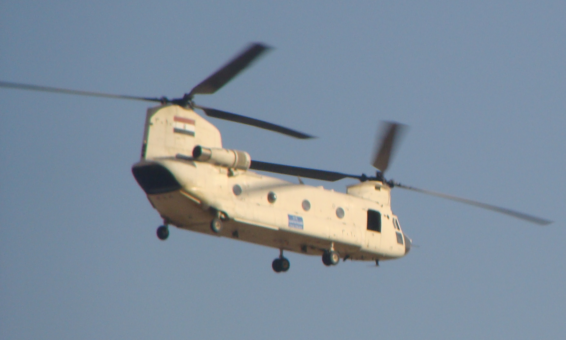 CH-47 Chinook of Egyptian Air Force